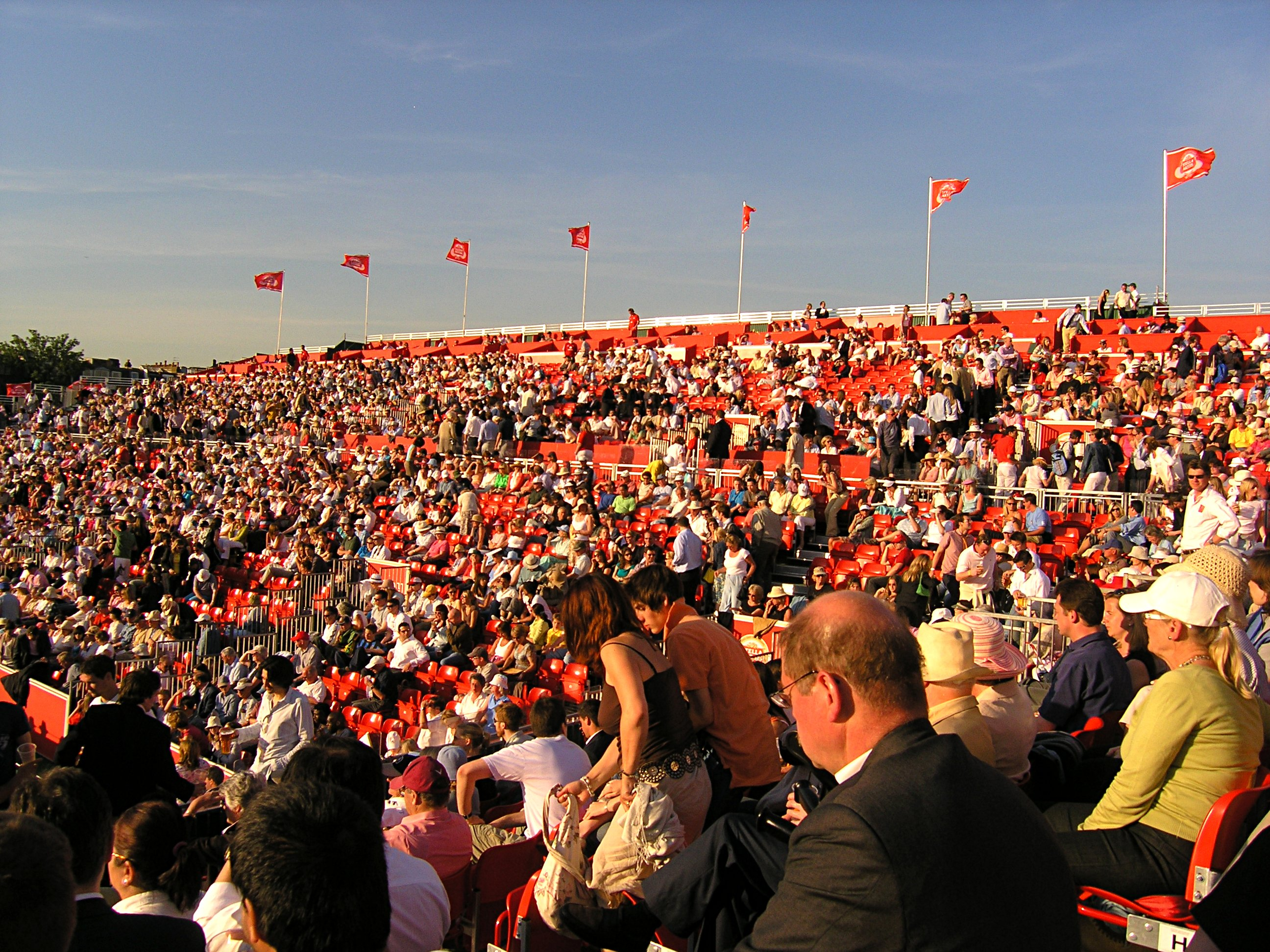 Centre Court stands at Queen's Club during the en:2005 Queen's Club Championships. Shermozle 21:47, Jun 8, 2005 (UTC)